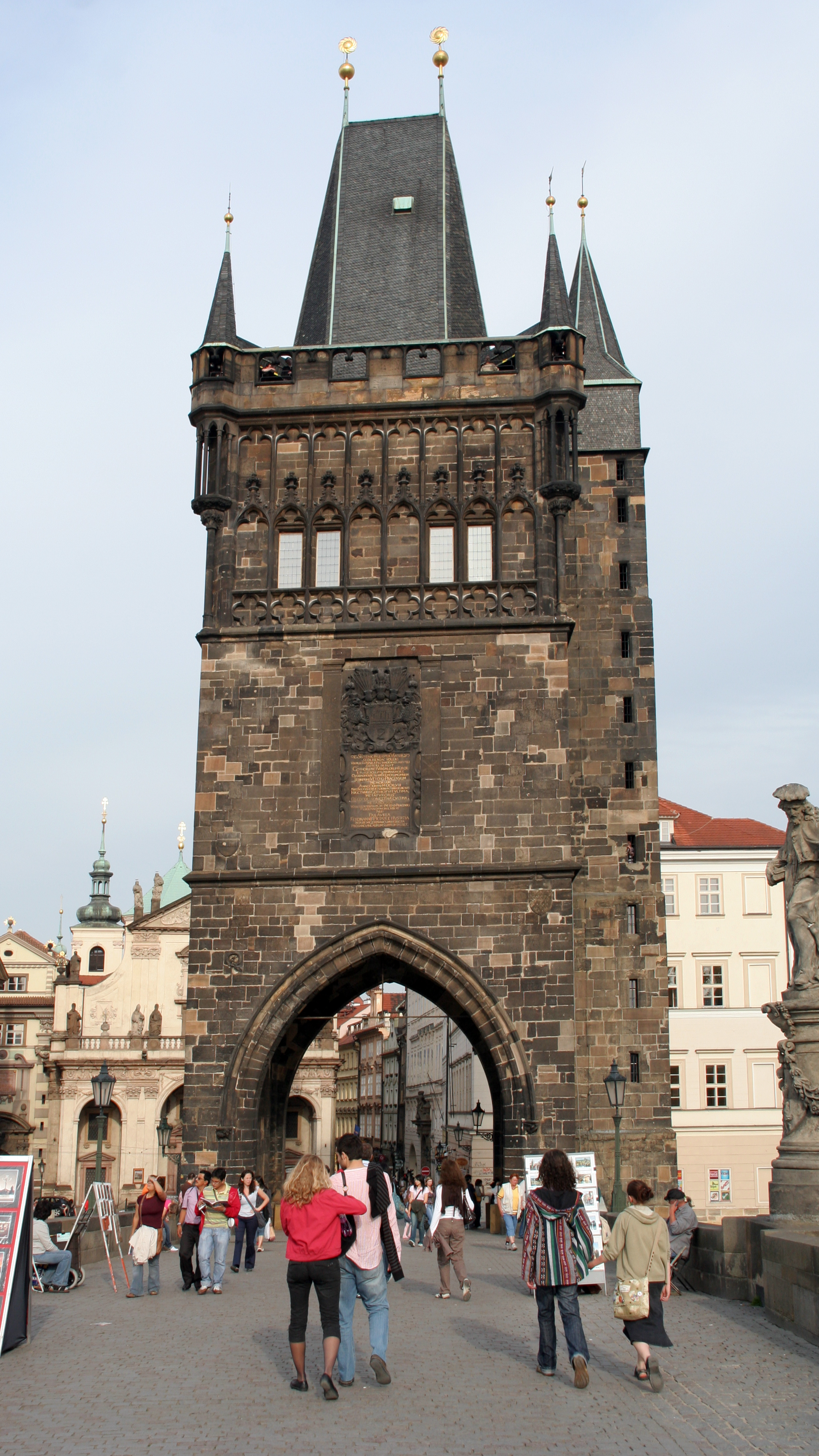 Charles Bridge Old Town Tower 3